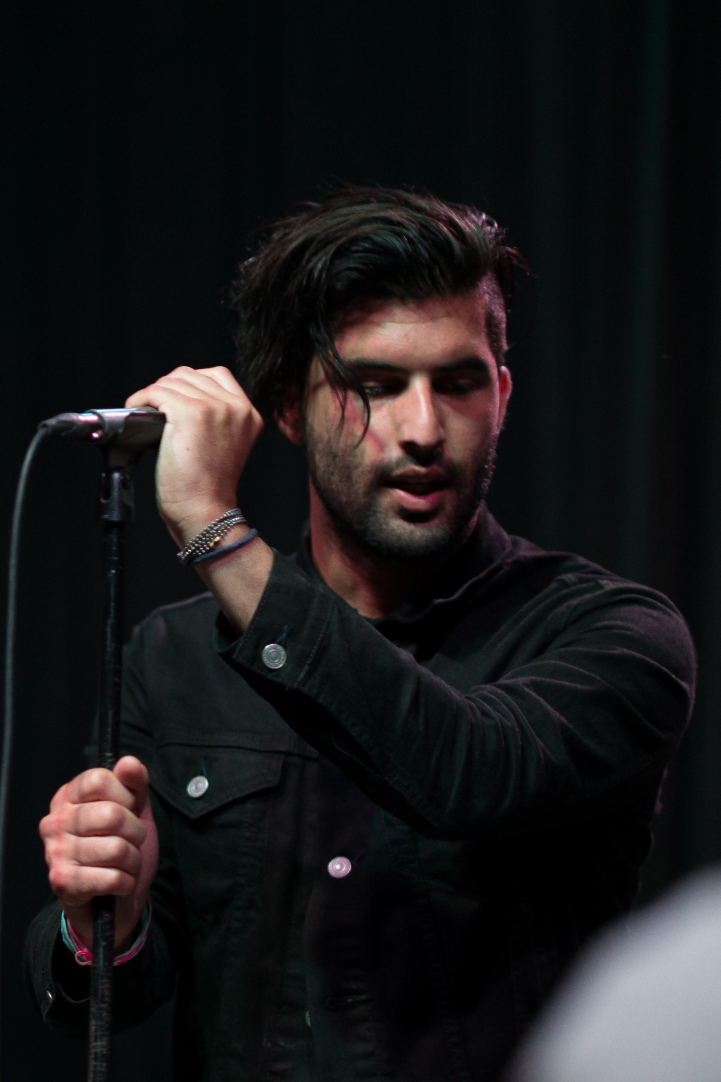 The Chain Gang of 1974 performing at Stubb's Austin in 2014